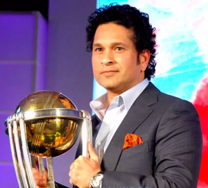 Sachin Tendulkar at MRF promotion event